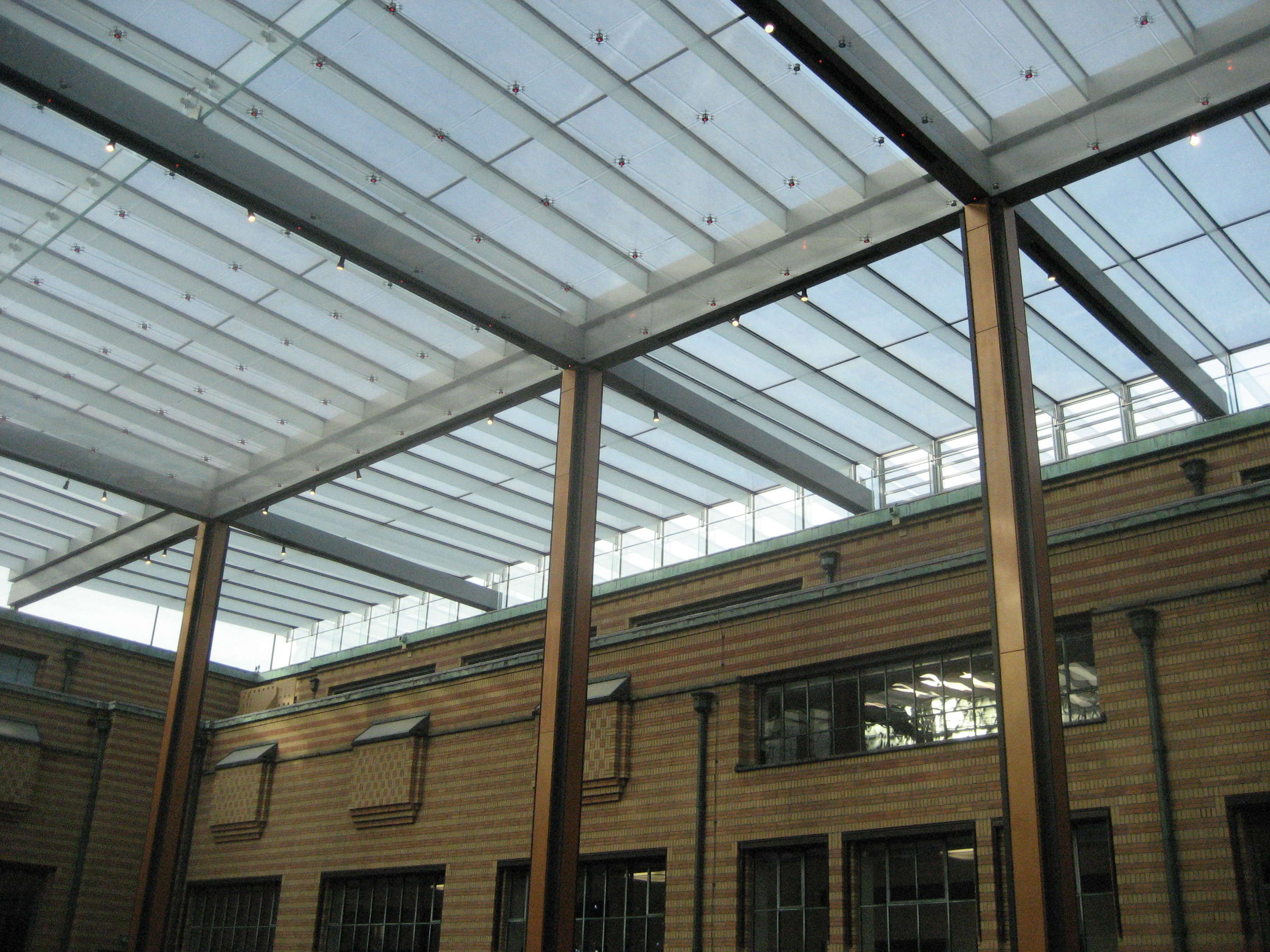 Part of the interior of the Kunstmuseum Den Haag in The Hague (the Netherlands)